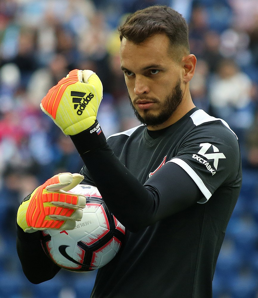 Guilherme Marinato